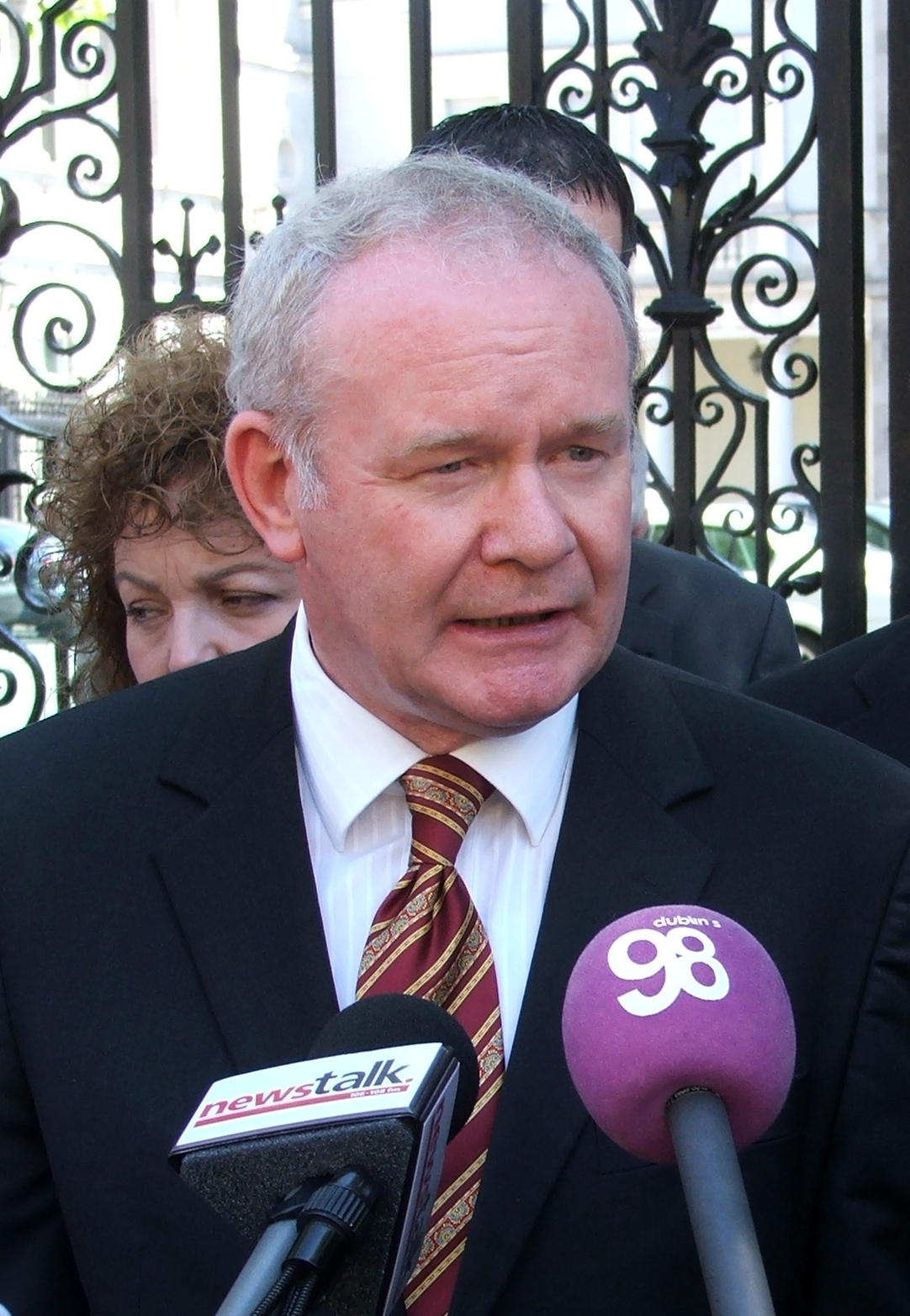 Martin McGuinness giving press statement outside the Dáil.